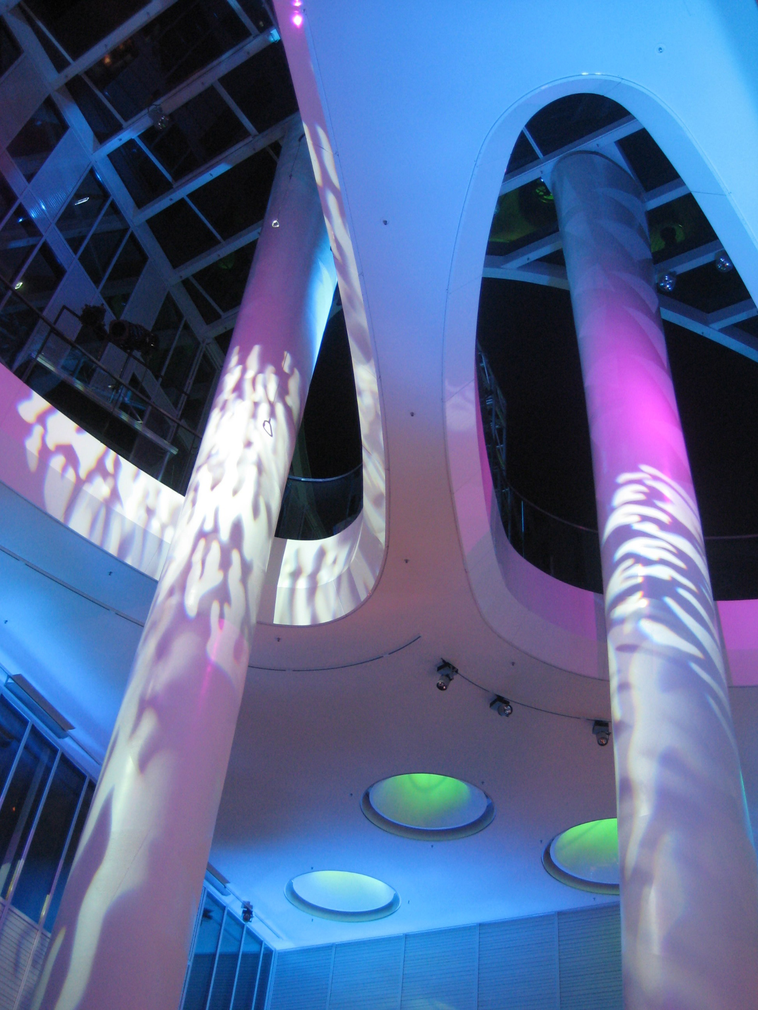 Commercial and Apartment building, Mainz, Marktplatz und Rebstockplatz